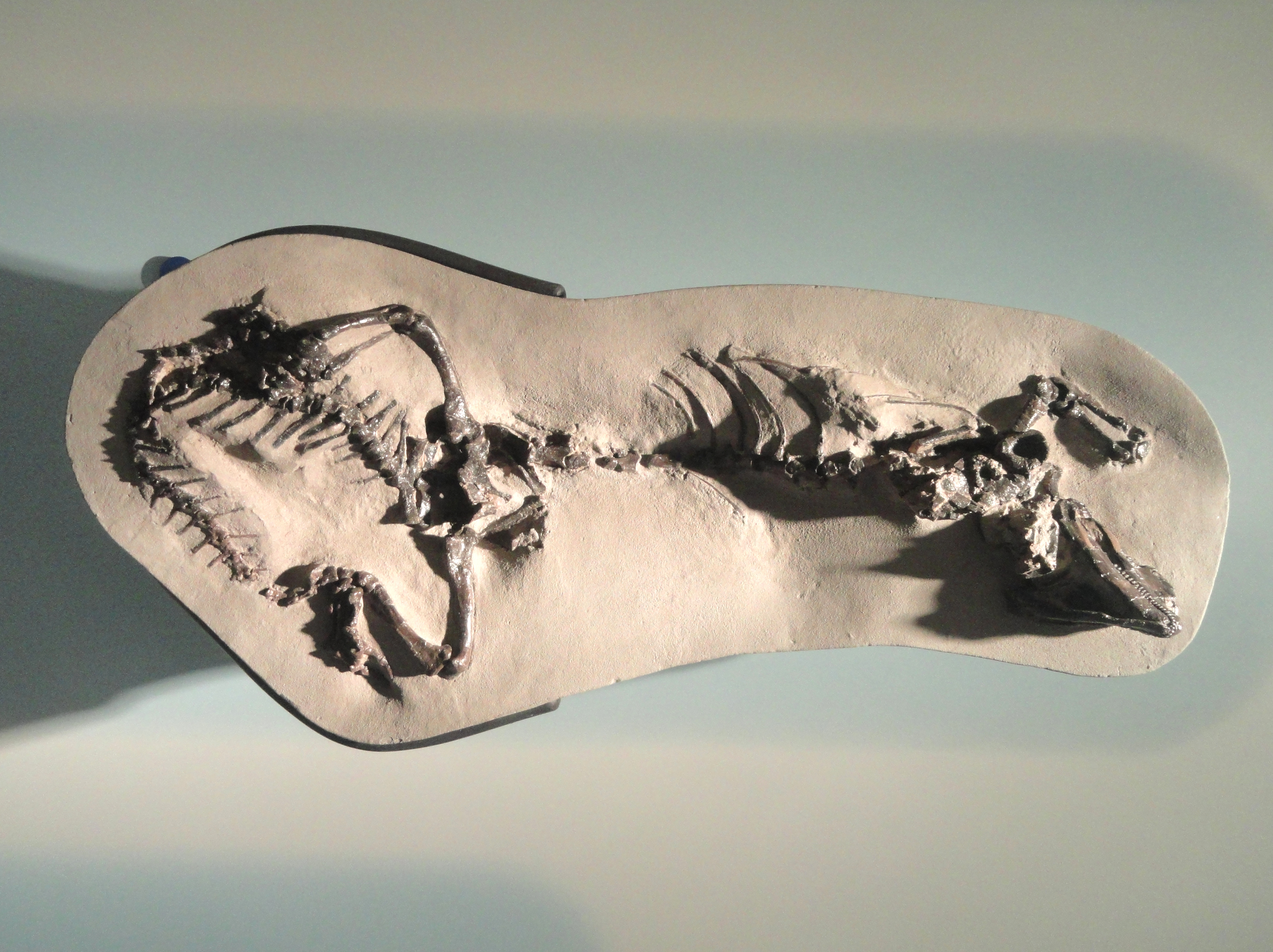 Exhibit in the fossil collection of the American Museum of Natural History, Manhattan, New York City, New York, USA.